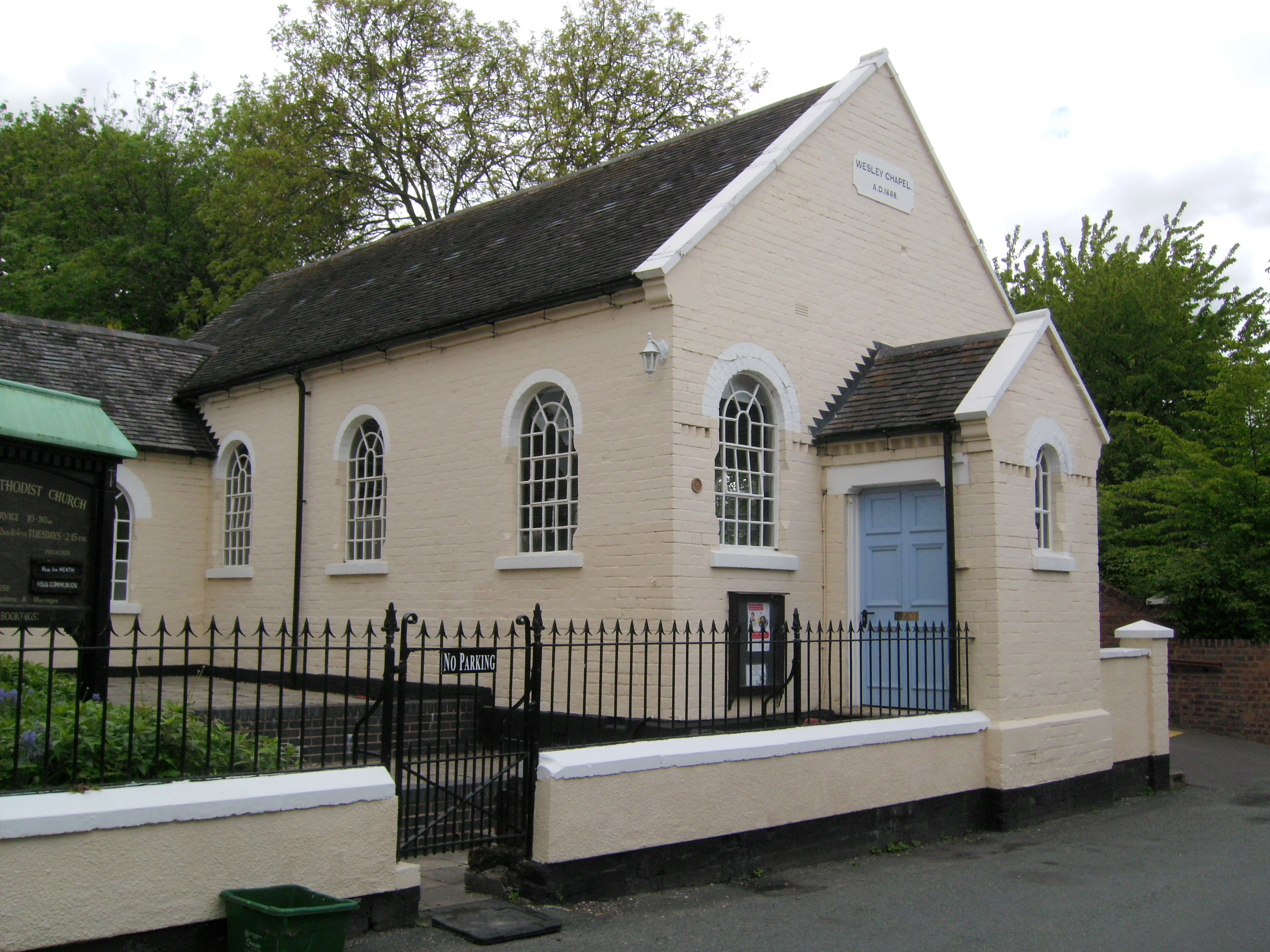 Wesleyan chapel, dated 1868, now a Methodist church, School Street, Brewood, Staffordshire, England. A typical Victorian nonconformist chapel.